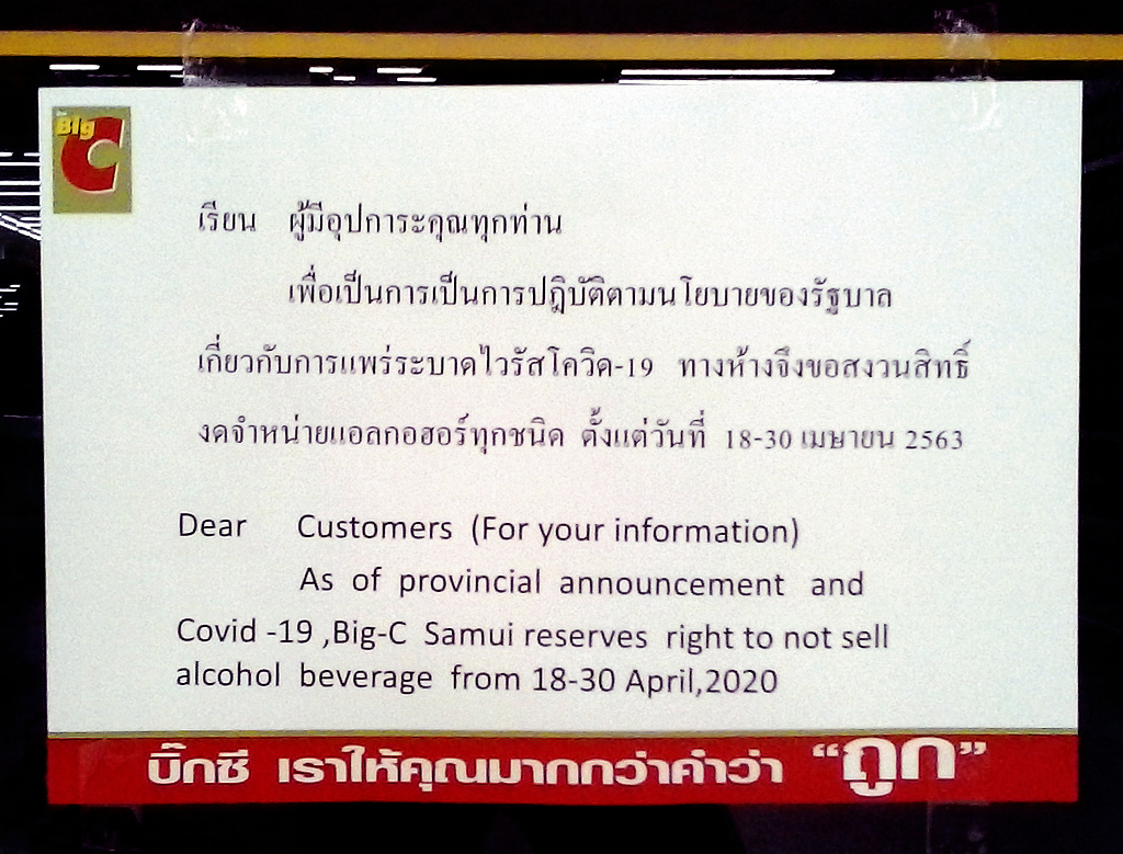 Sign in BigC super store informing customers that it's illegal to sell alcohol due to COVID-19 lockdown in April 2020. The text says: "Dear Customers (For your information) . As of provincial announcement and Covid-19, Big-C Samui reserves right to not sell alcohol beverage from 18-30 April, 2020".